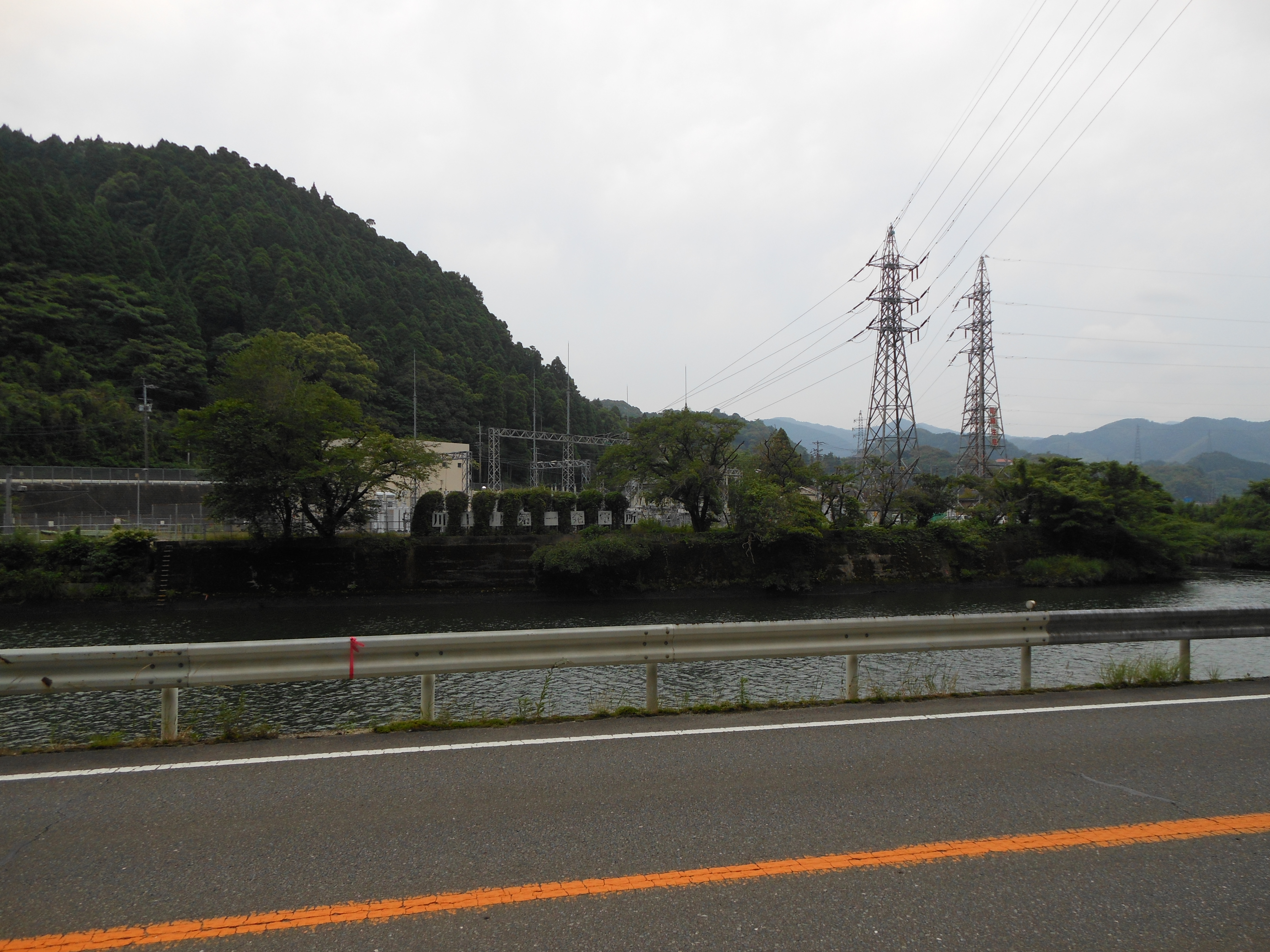 Kawakamigawa-Daiichi hydro power station